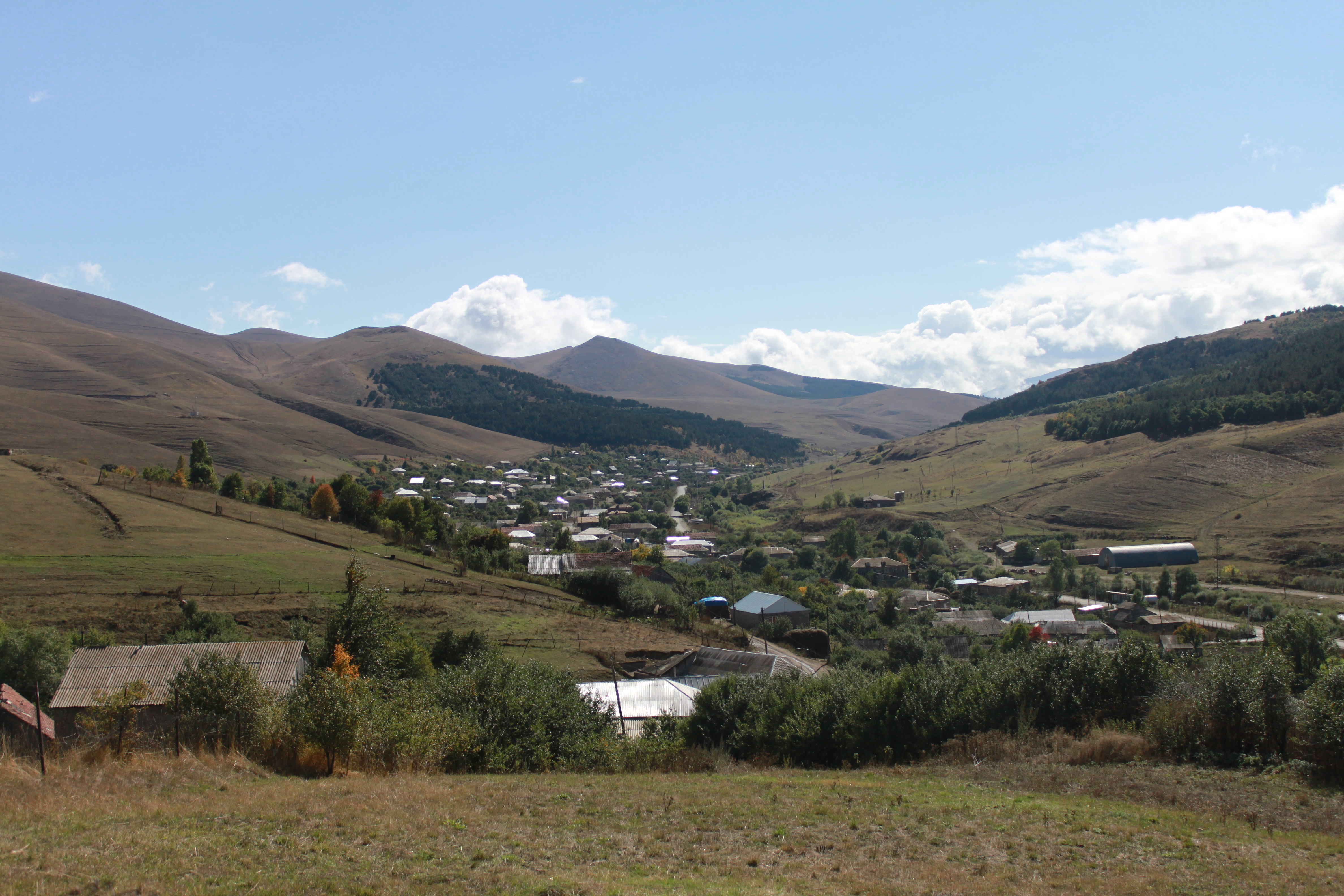 A view of Ttujur town in Armenia, near the border with Azerbaijan (which is beyond the mountains to the left).